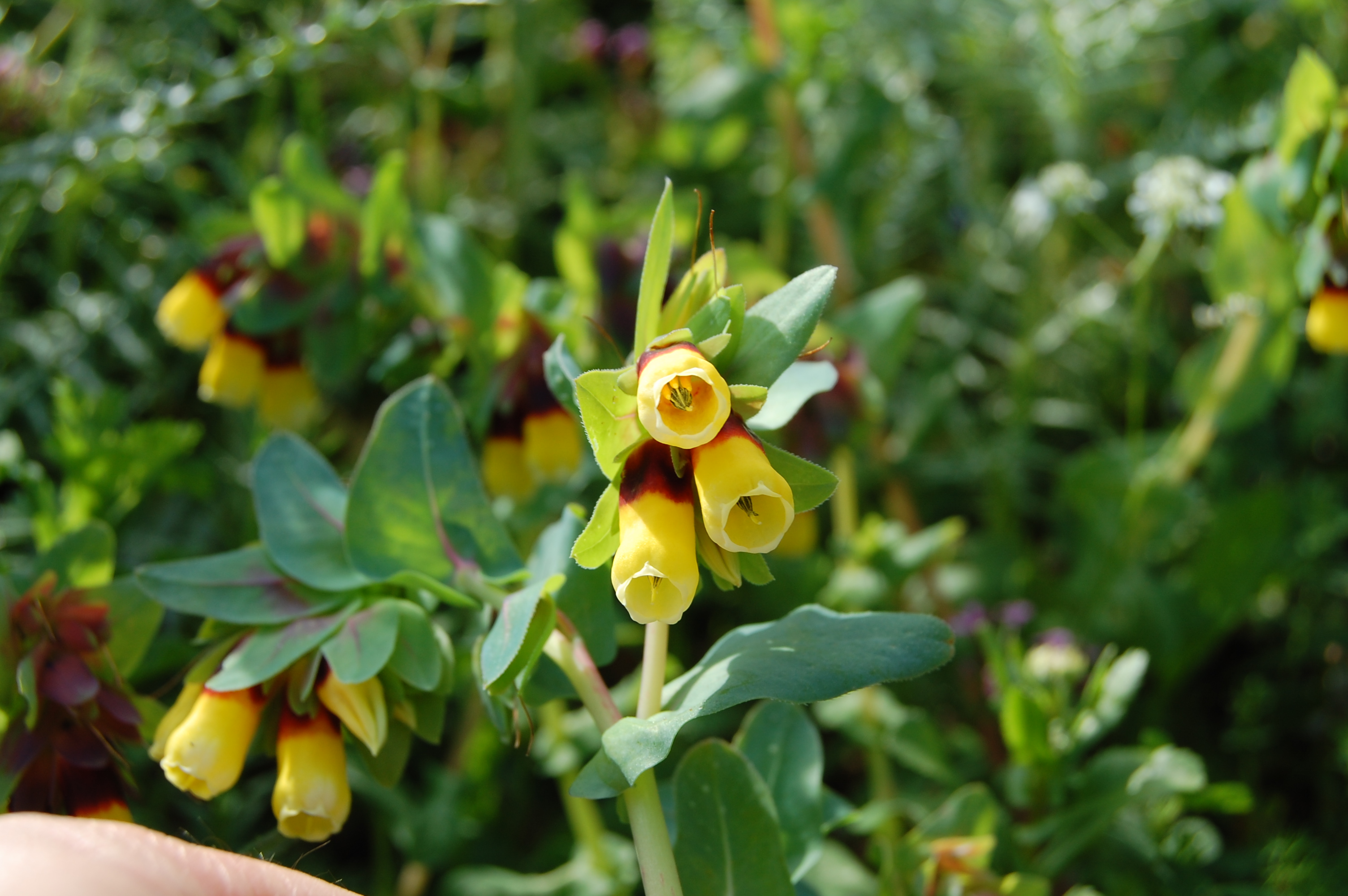 Cerinthe major L. 1753